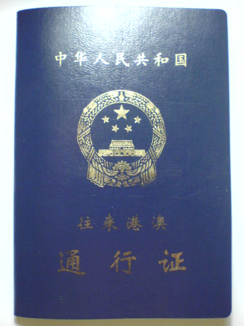 PRC Travel Permit for Visiting Hong Kong and Macao